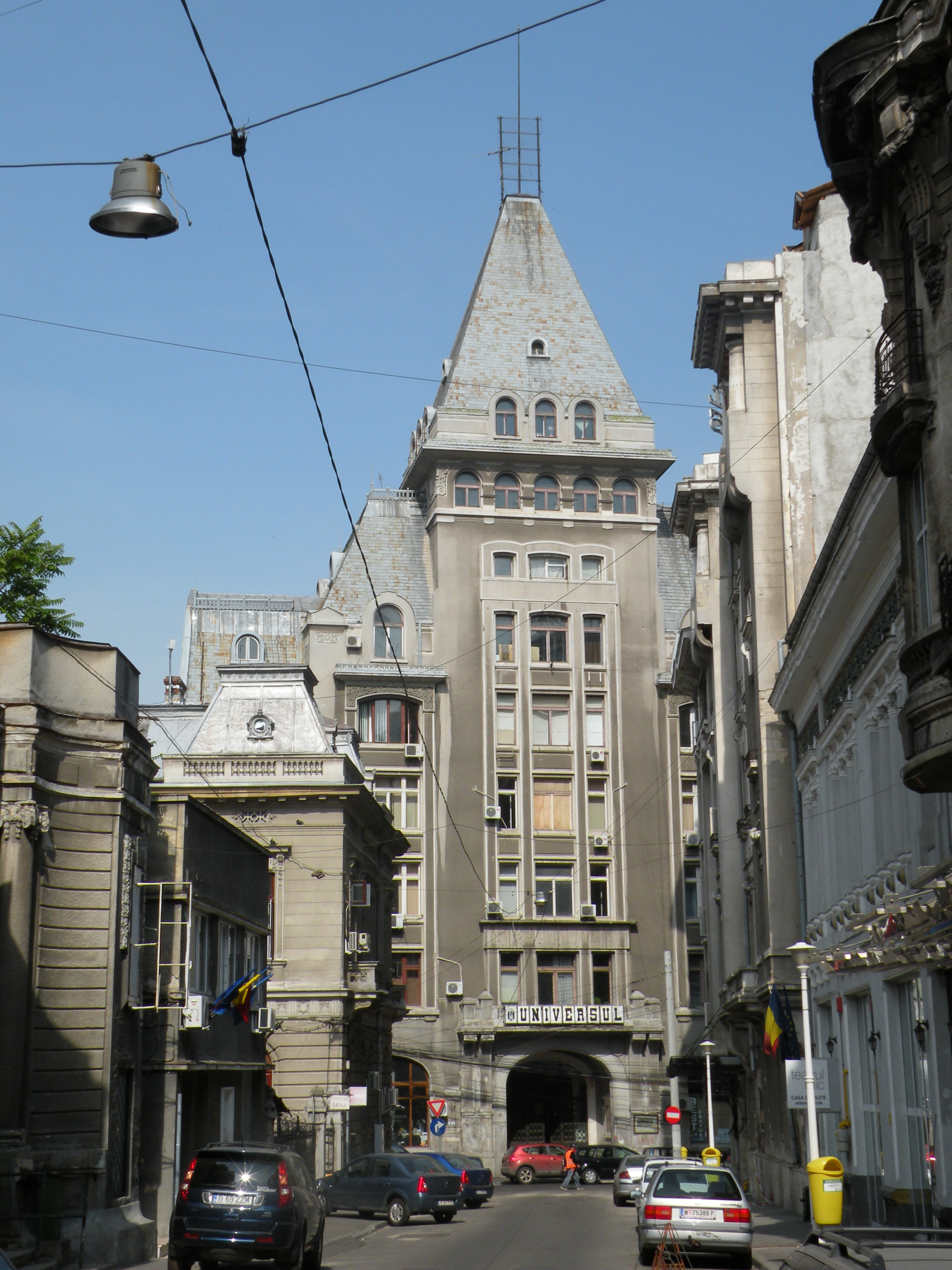 The following is the author's description of the photograph quoted directly from the photograph's Flickr page.""UNIVERSUL" "